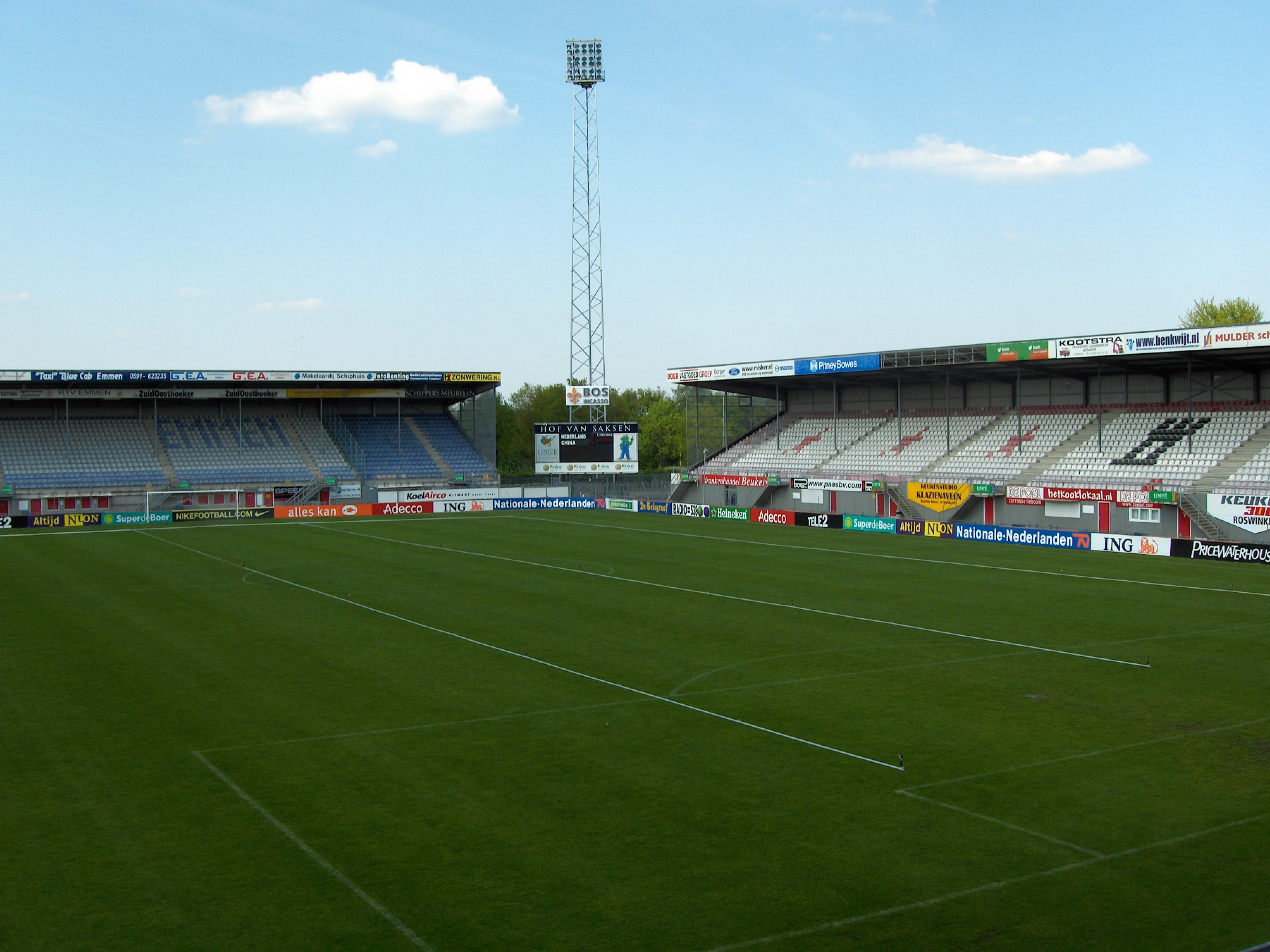 Univé Stadion east and south